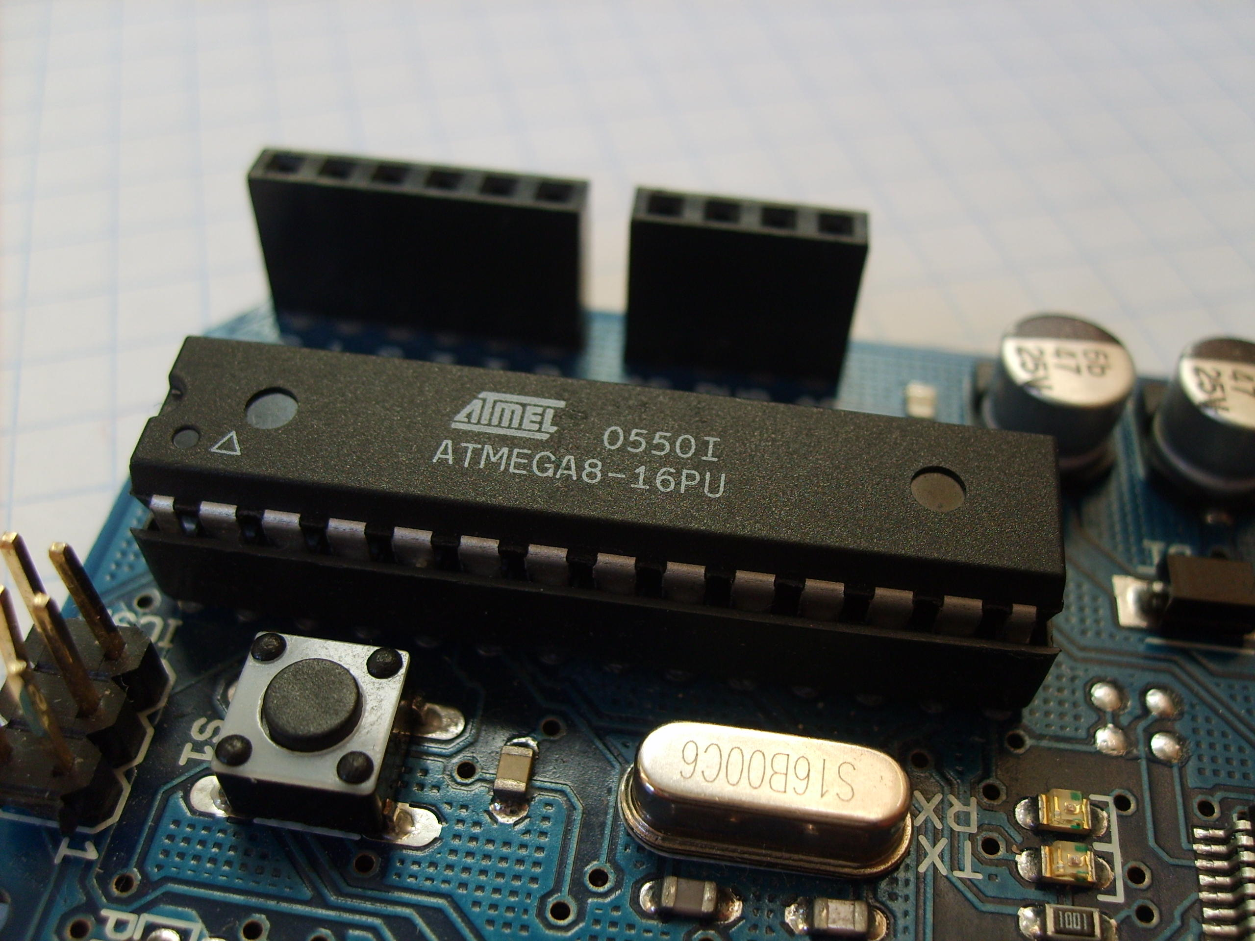 An Atmel AVR ATMega8-16PU microcontroller on the Arduino NG board from arduino.cc.